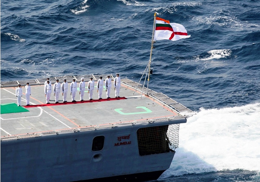 INS Mumbai off Vishakhapatnam coast during Indian Navy's International Fleet Review 2016